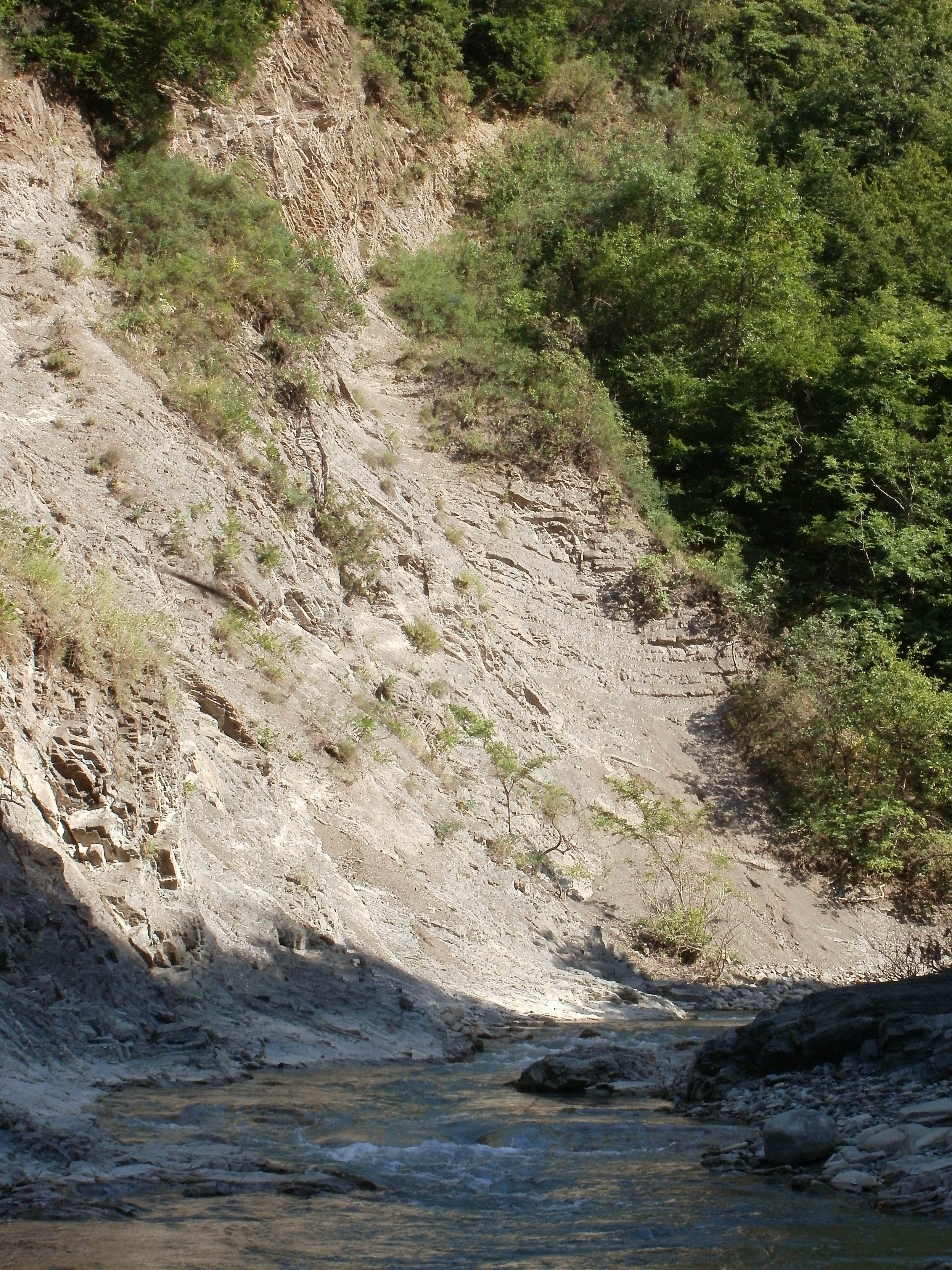 River Vere from Betania Monastery